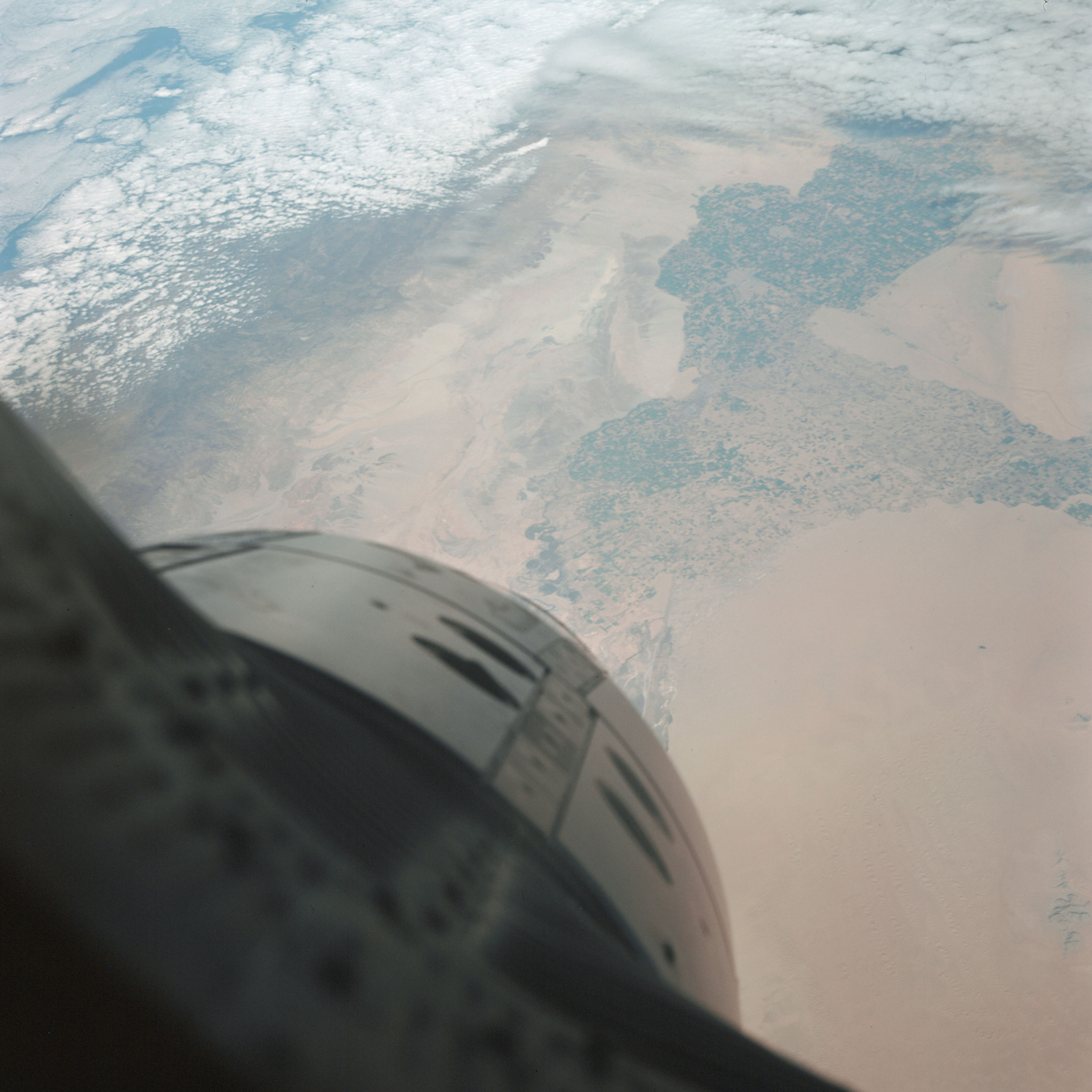 Astronaut John W. Young took this picture during the second orbit of the Gemini-Titan 3 three-orbit mission as the spacecraft "Molly Brown" passed over Northern Mexico at an altitude of 90 miles. The light-brown circular area at the lower right is the Sonoran Desert. The lower portion of the picture is Mexico, and the upper part is California. Young used a hand-held modified 70mm Hasselblad camera with color film. The lens setting was 250th of a second at f/11.